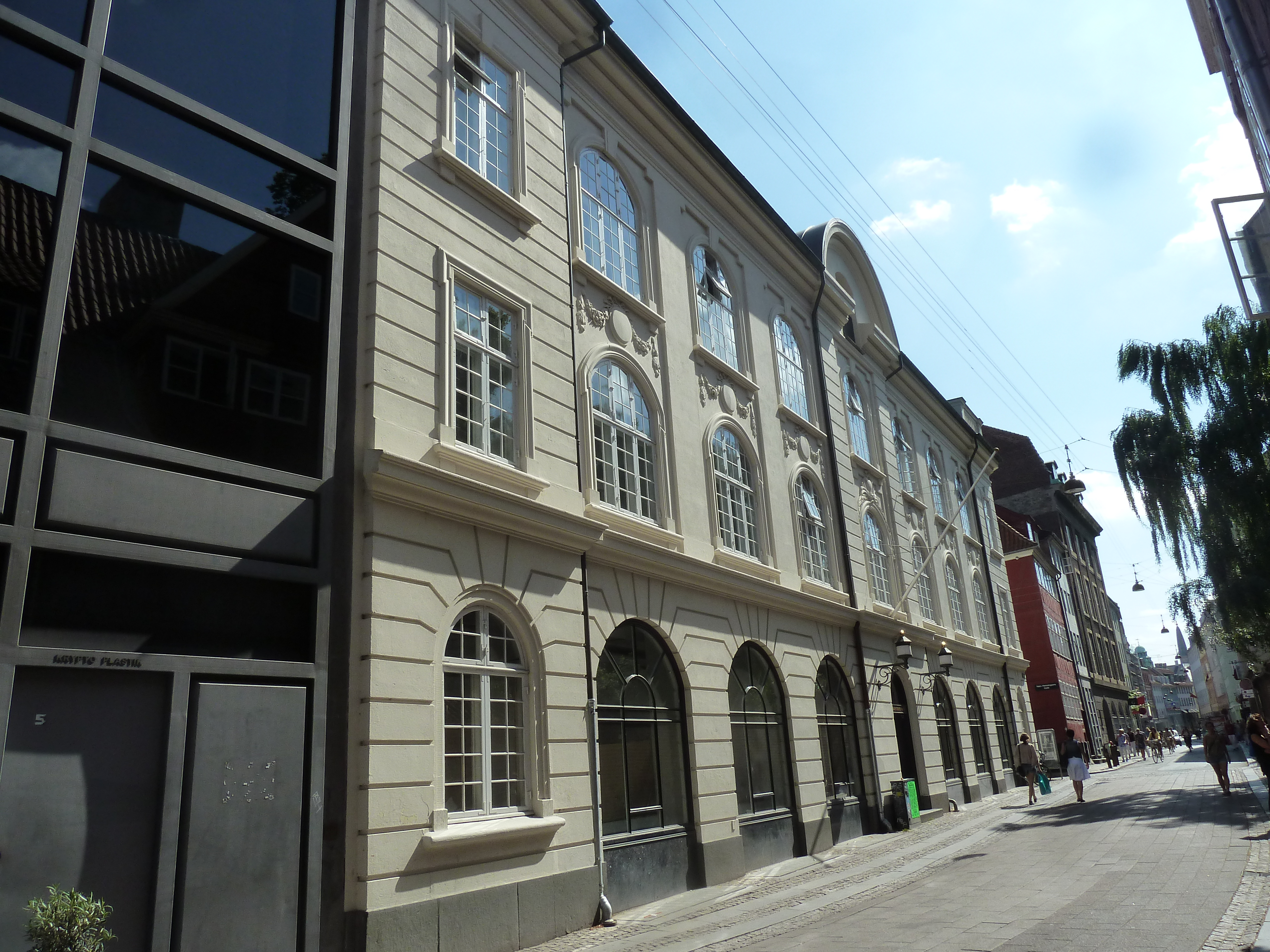 The old part of Pressens Hus (Skindergade 7) in Copenhagen, Denmark. It was built in 1903. A bit of the modern infill extension from 1976 by Erik Korshagen can be sseen on the left.